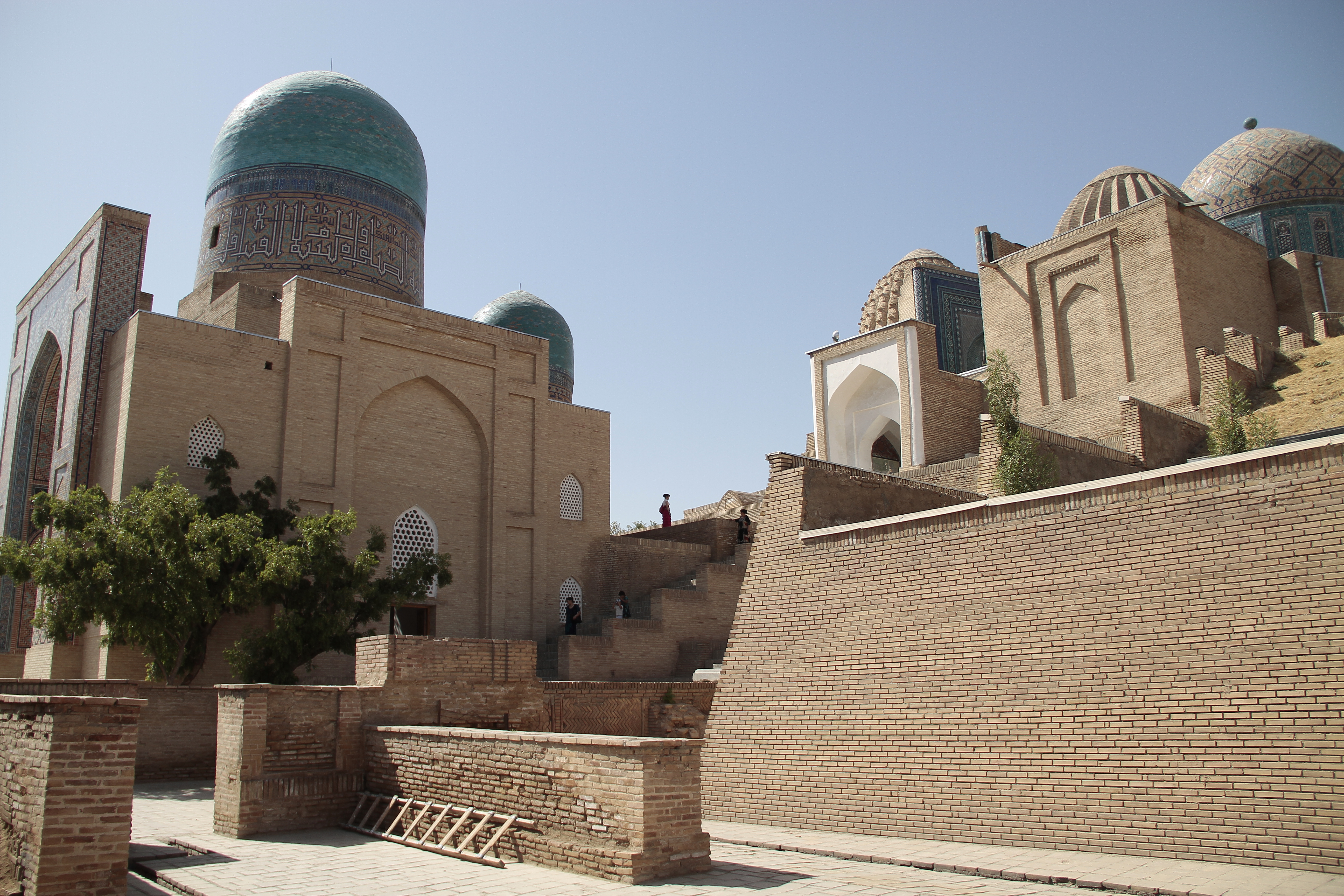 Islamic compex Shakhi Zinda